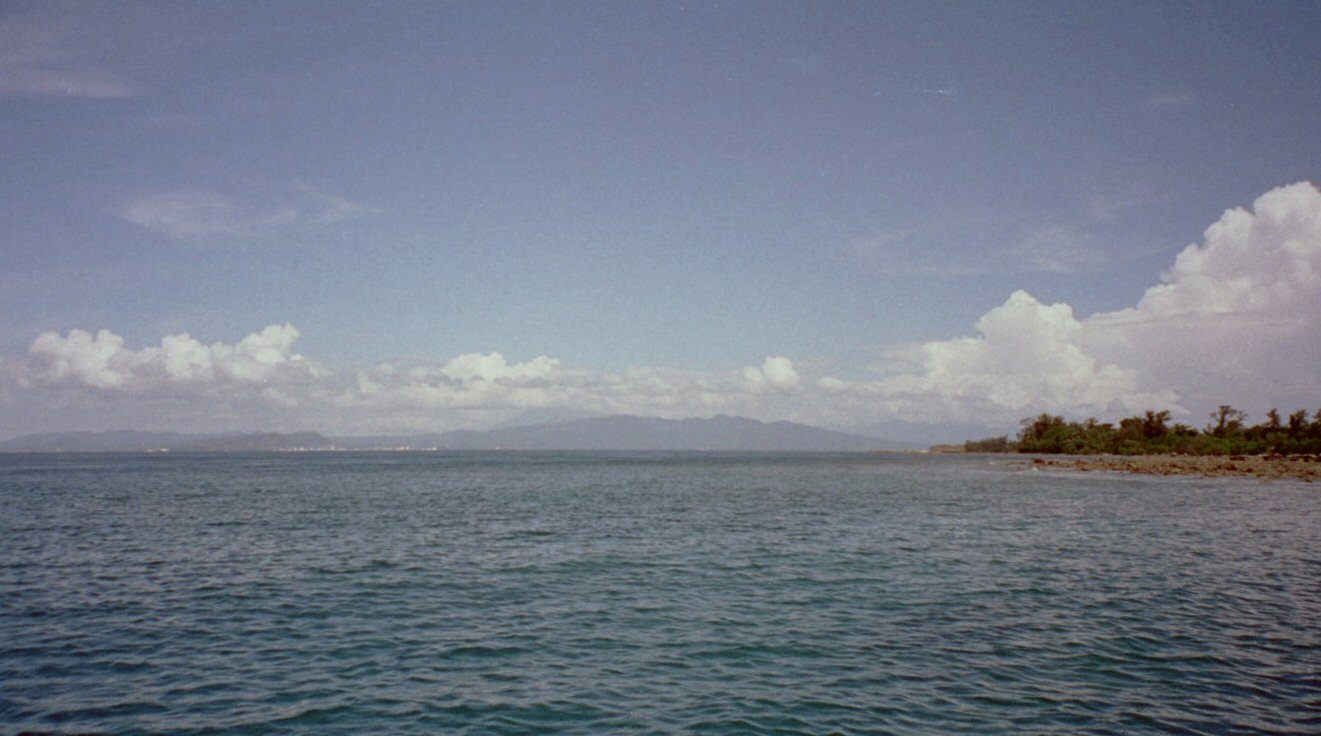 Sunda Strait between Java and Sumatra